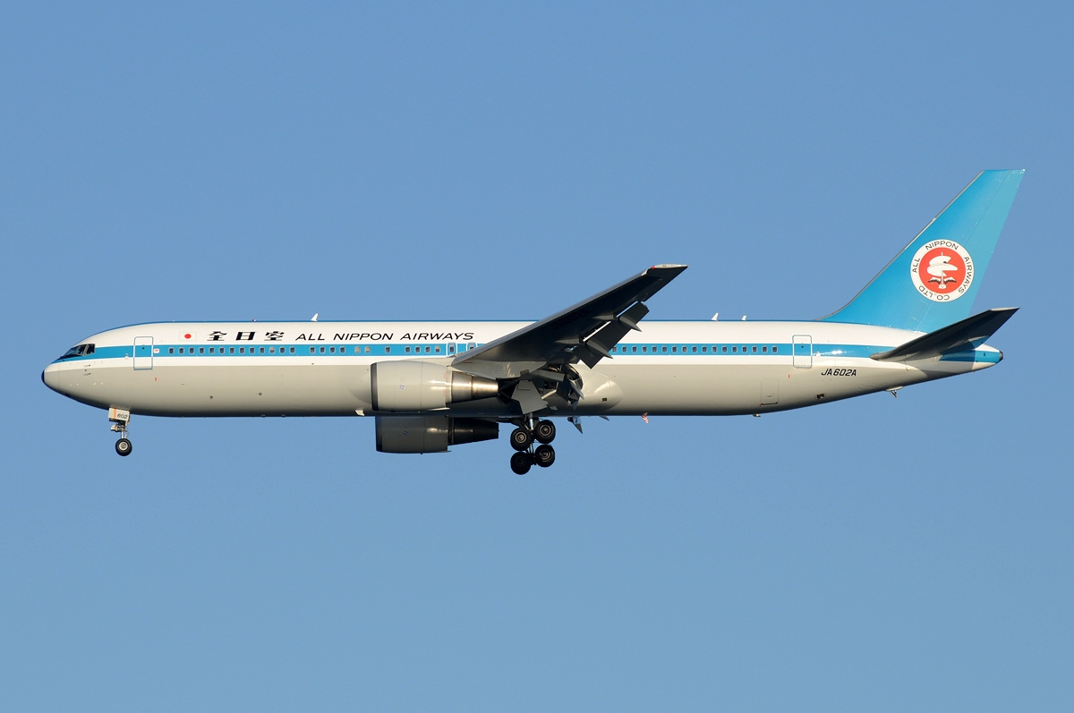 "Mohikan Jet" debut!! This c/s is the 30th anniversary of ANA.